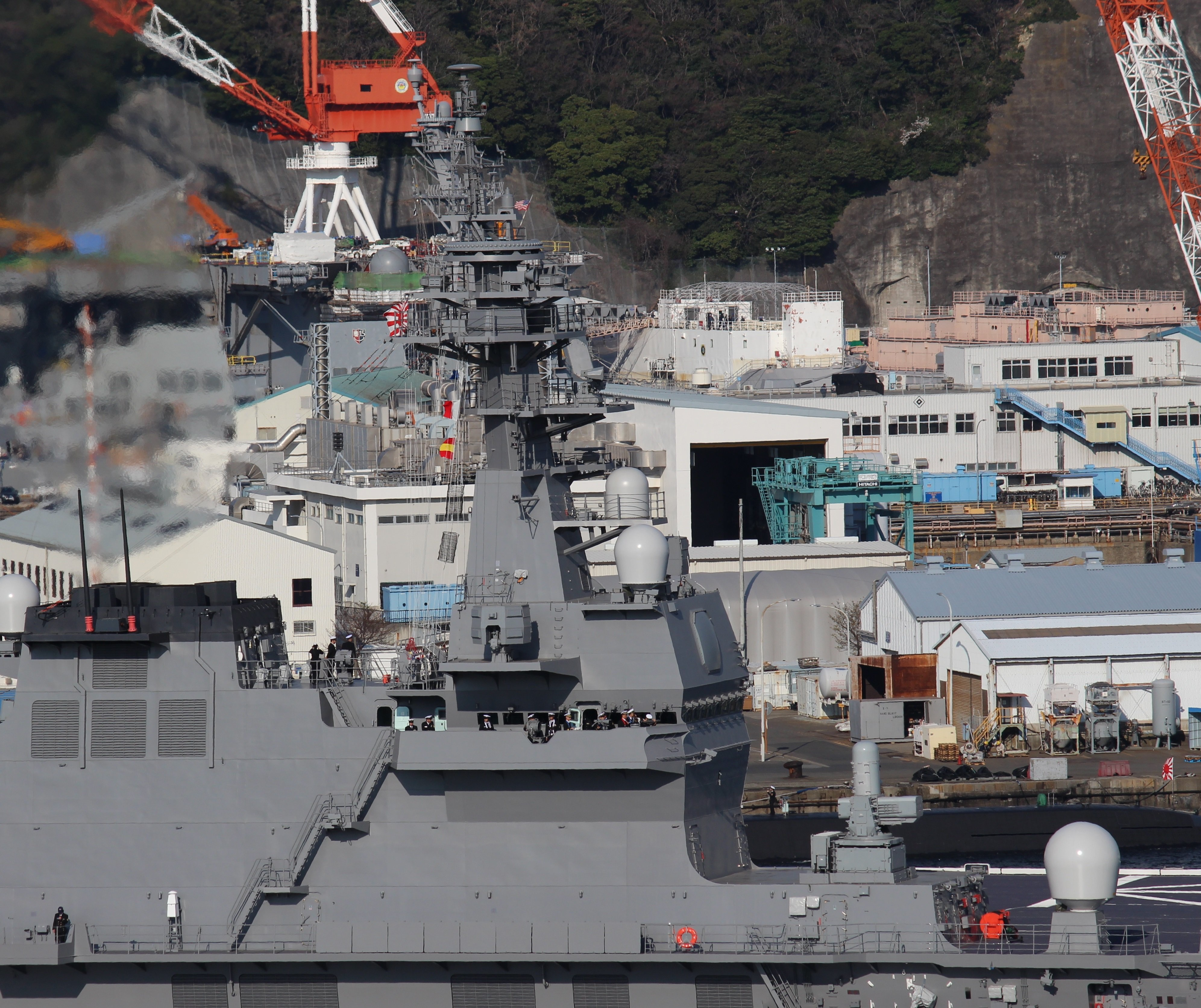 JS Izumo(DDH-183)